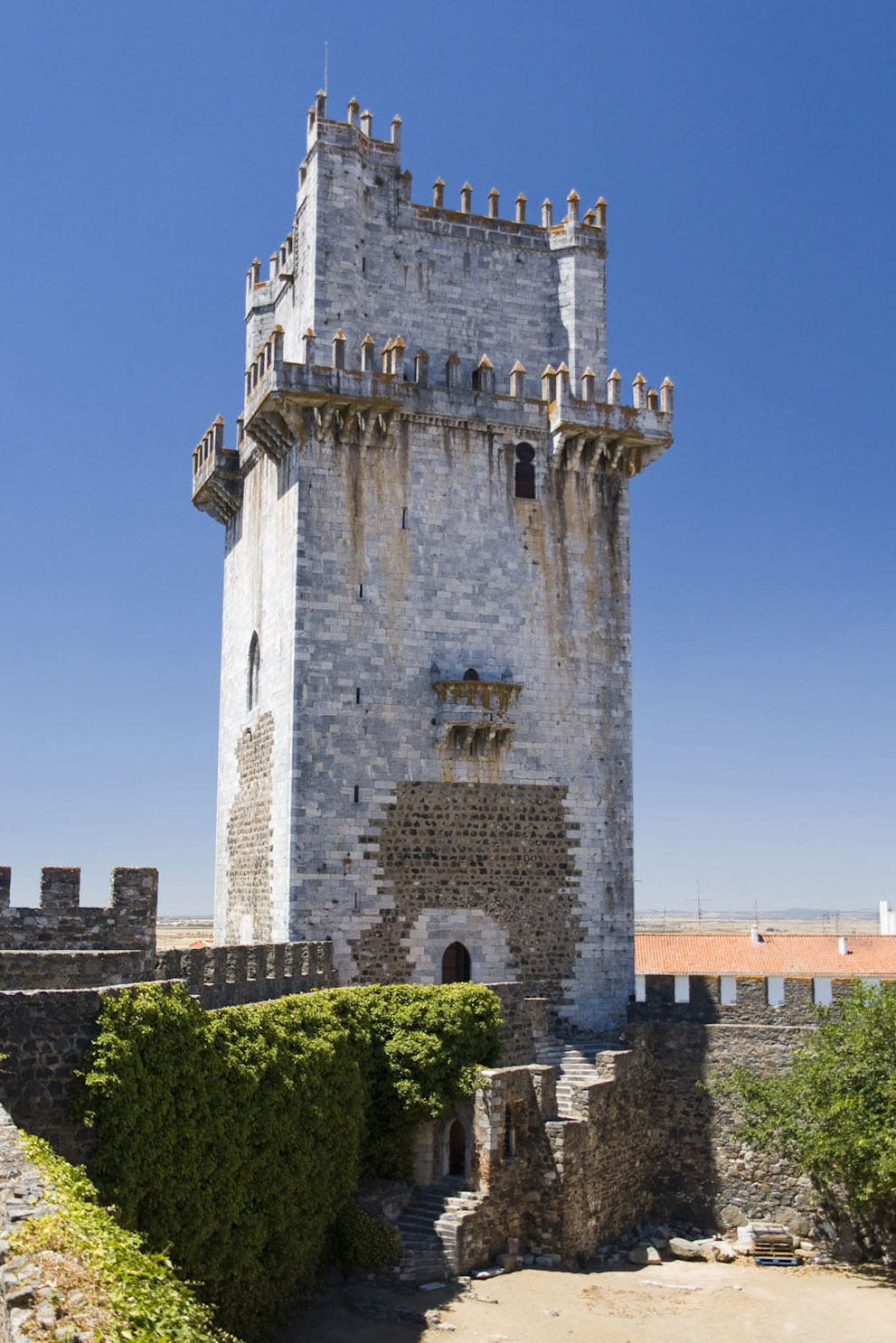 Beja (Portugal) Torre de Menagem